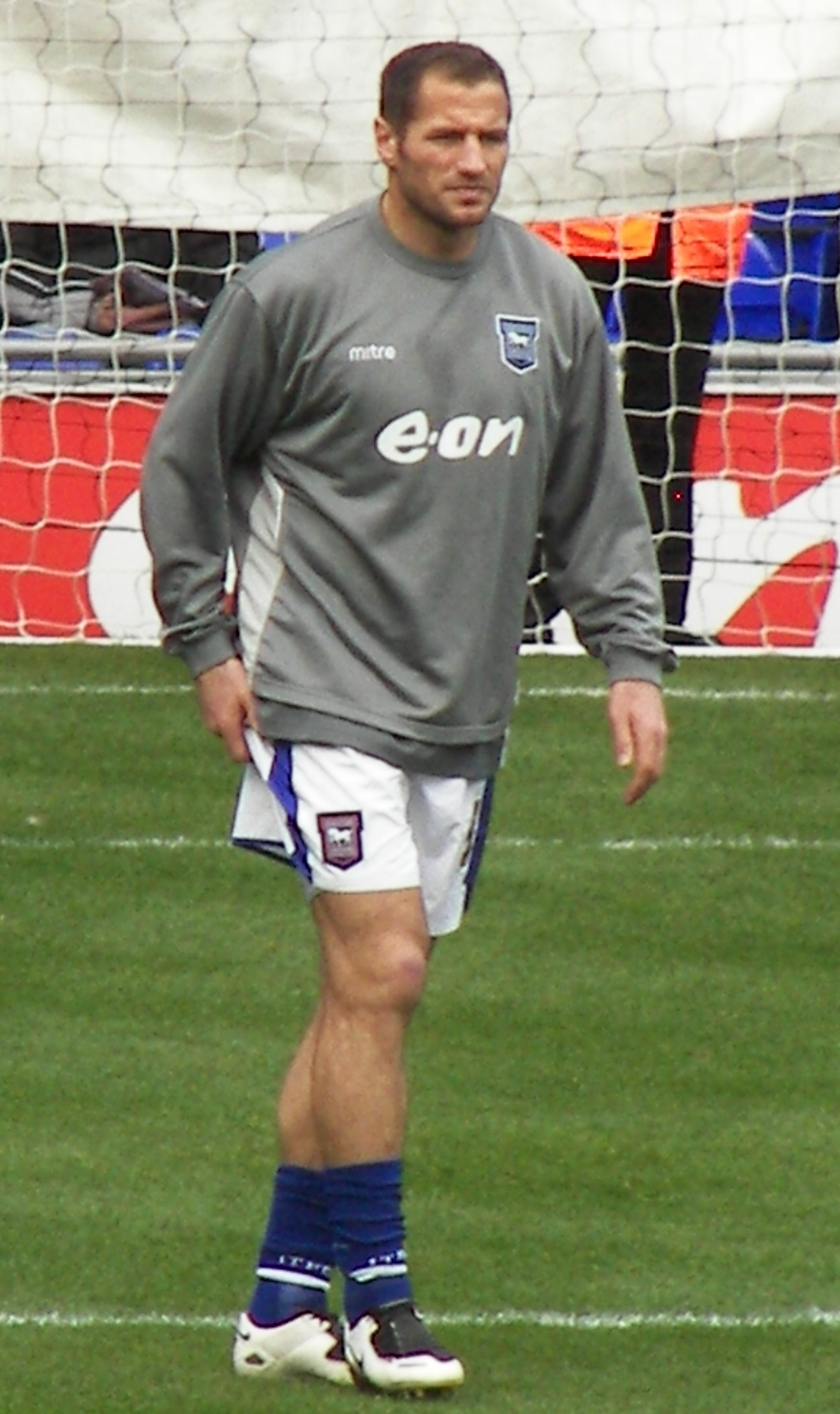 Known as the Flying Finn because when he scores he does a flying belly flop on to the turf, without hurting himself. At 6 ft 3 in there's a lot of him to hurt!